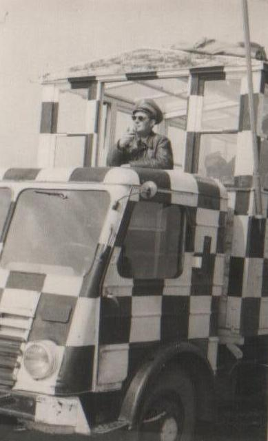 Mjr pil. Bolesław Andrychowski na SSD, 1959